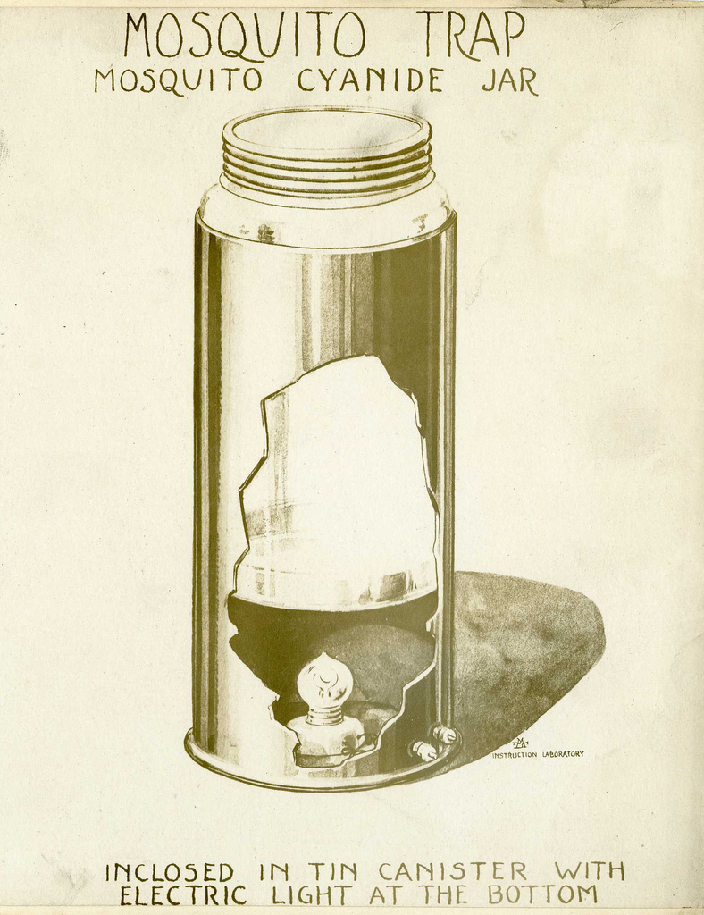 Mosquito control. Mosquito trap. Mosquito cyanide jar. World War 1.